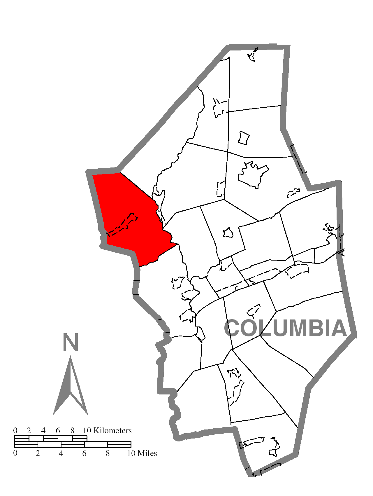 A map of Columbia County showing Madison Township, Pennsylvania (alternate) highlighted on the map.